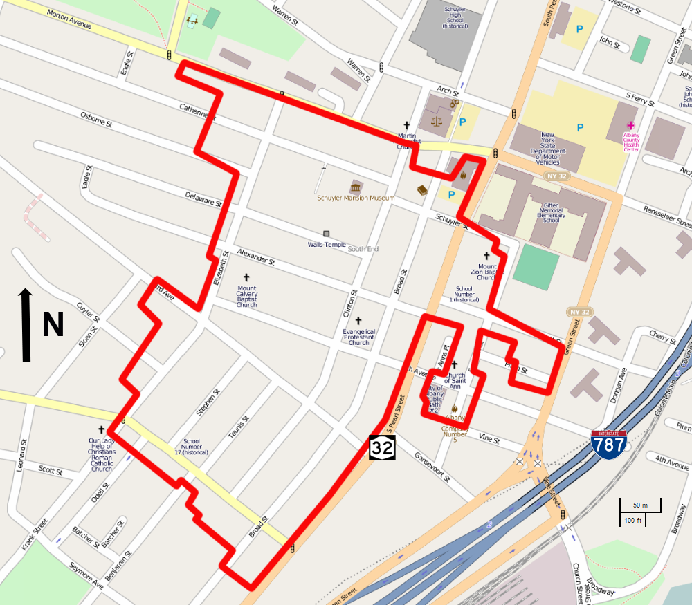 Map of South End–Groesbeckville Historic District, Albany, NY, USA